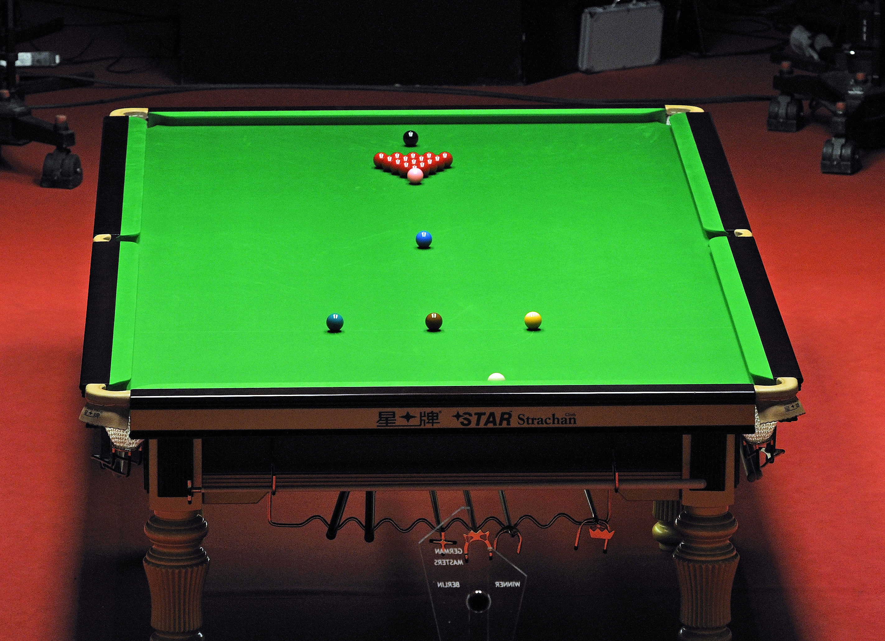 Picture taken in Berlin during the Snooker German Masters in 2011.